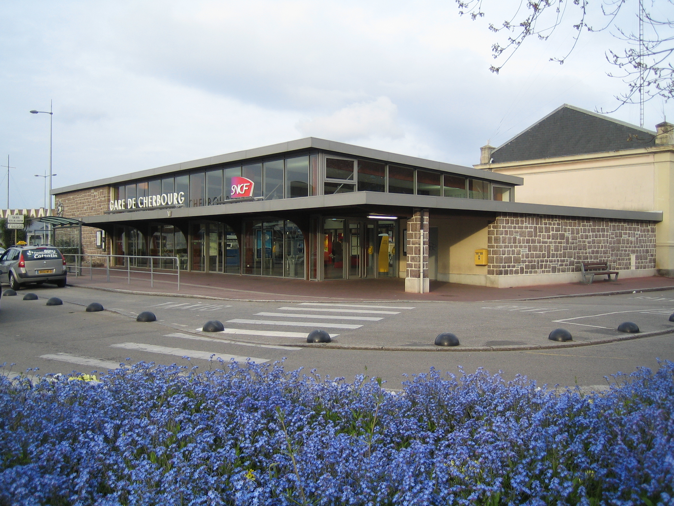 Cherbourg (France) : train station (gare SNCF)